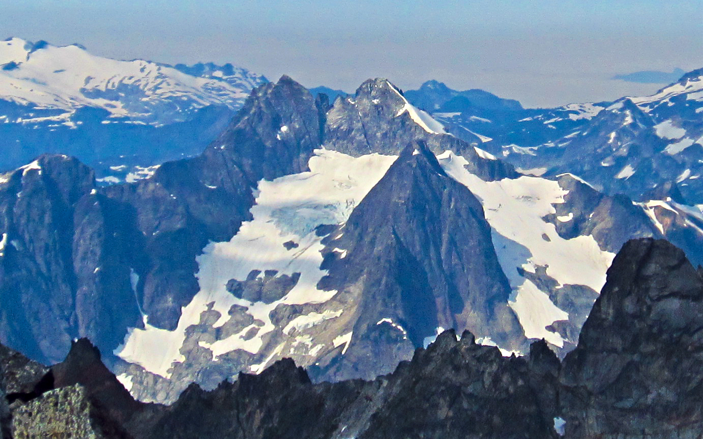 Mount Despair from McMillan Spire. North Cascades National Park